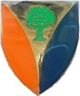 SADF Regiment Oranjerivier flash emblem